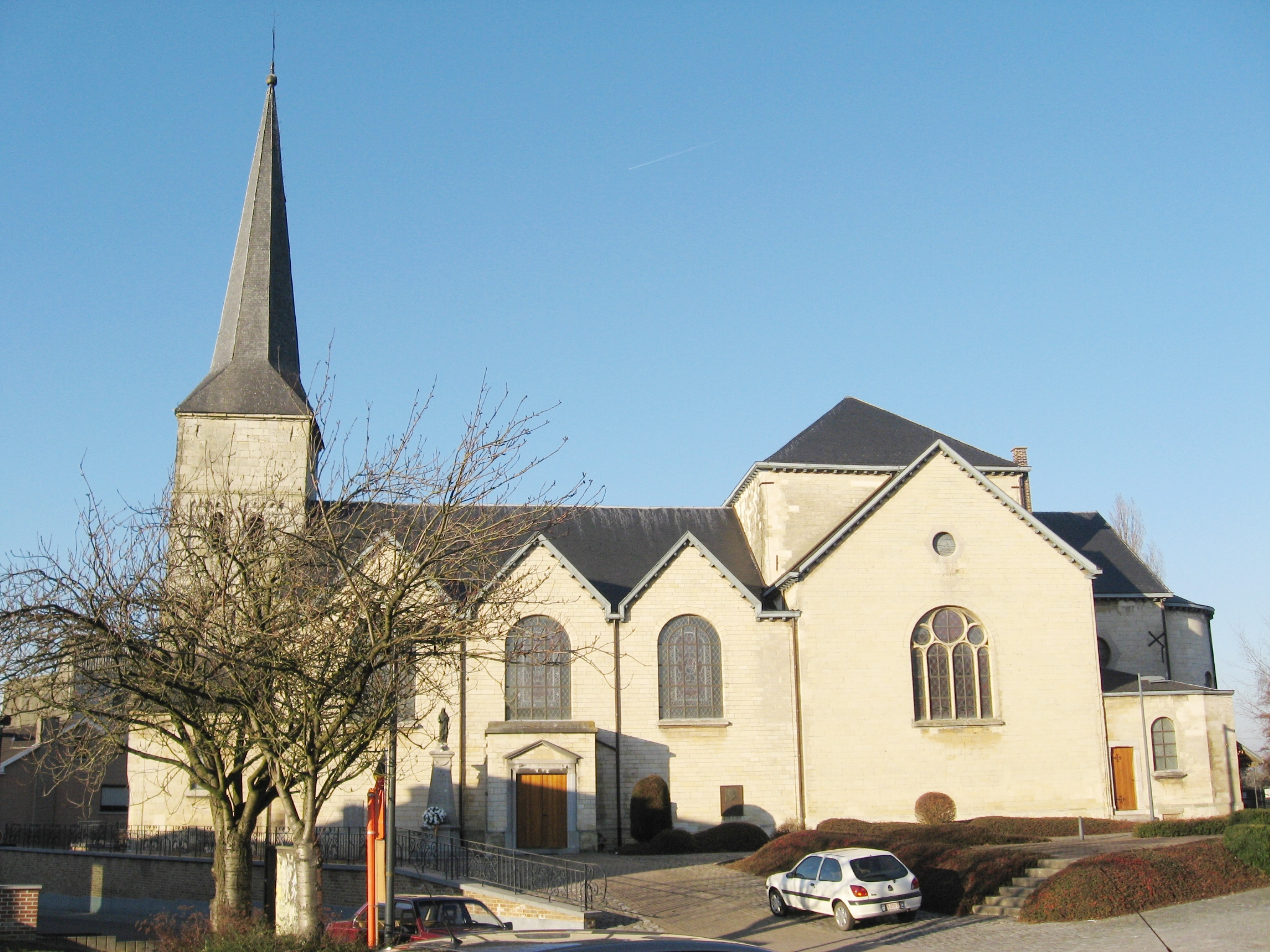 Church of Saint Stephen in Val-Meer, Riemst, Limburg, Belgium